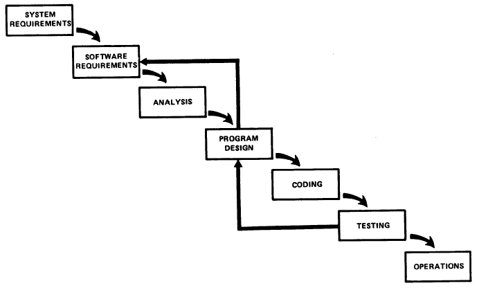 Managing the Development of Large Software Systems, Figure 4: "I believe the illustrated approach to be fundamentally sound"